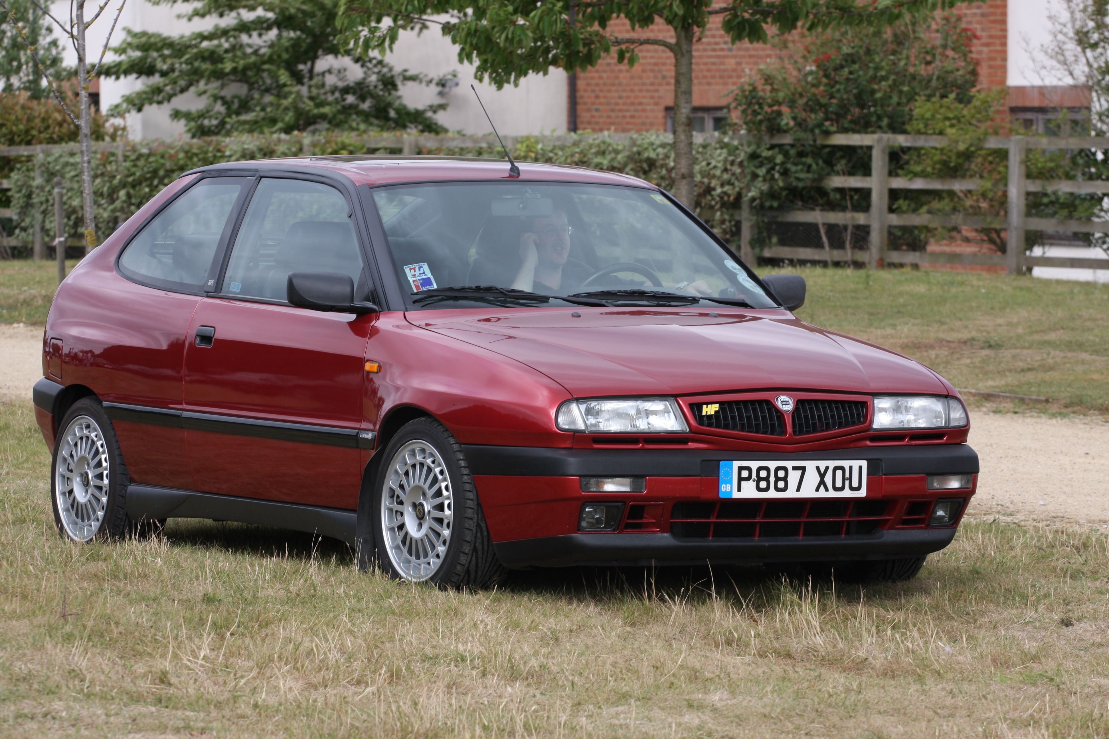 Lancia Motor Club AGM July 2010 Thame Oxford